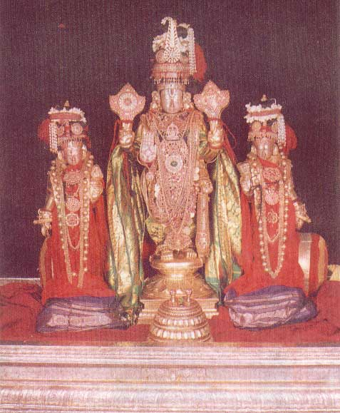 Thiruvallluvar VeeraraghavaPerumal